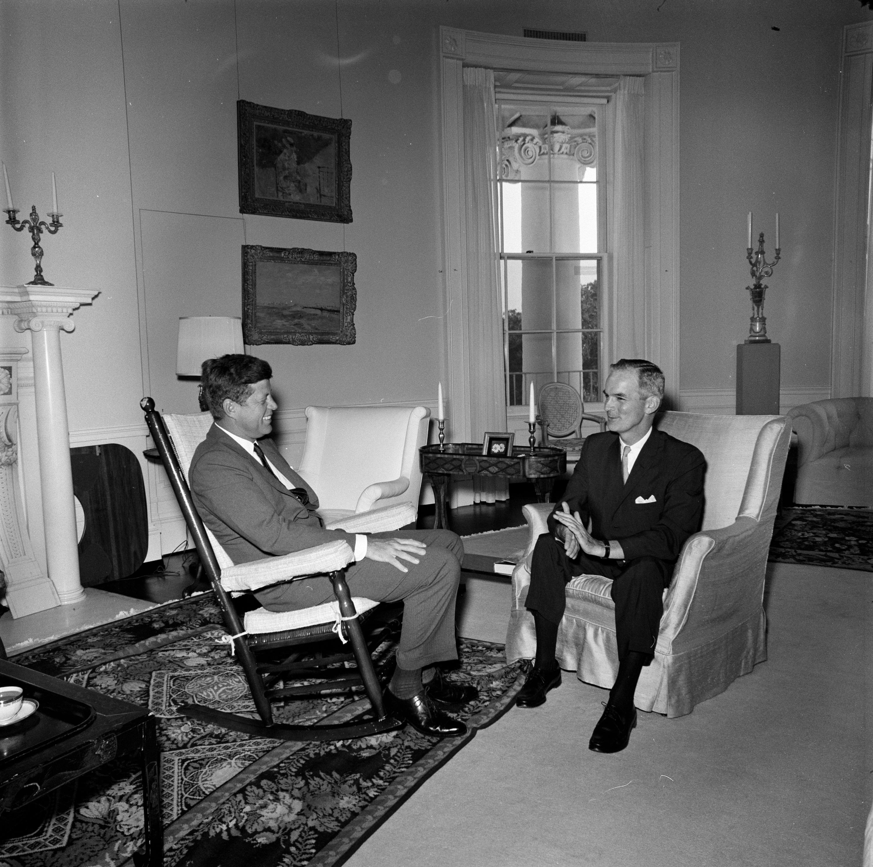 President John F. Kennedy Meets with Governor of Indiana Matthew E. Welsh